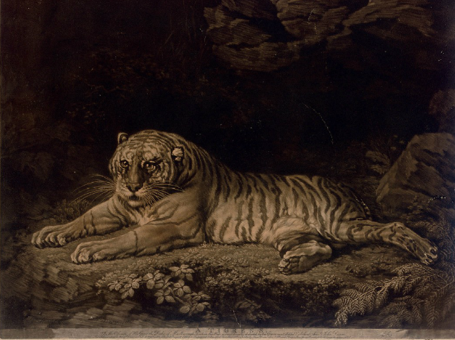 A Tigress - fourth and final state, good impression with narrow margins on three sides, trimmed along plate mark and image at top edge